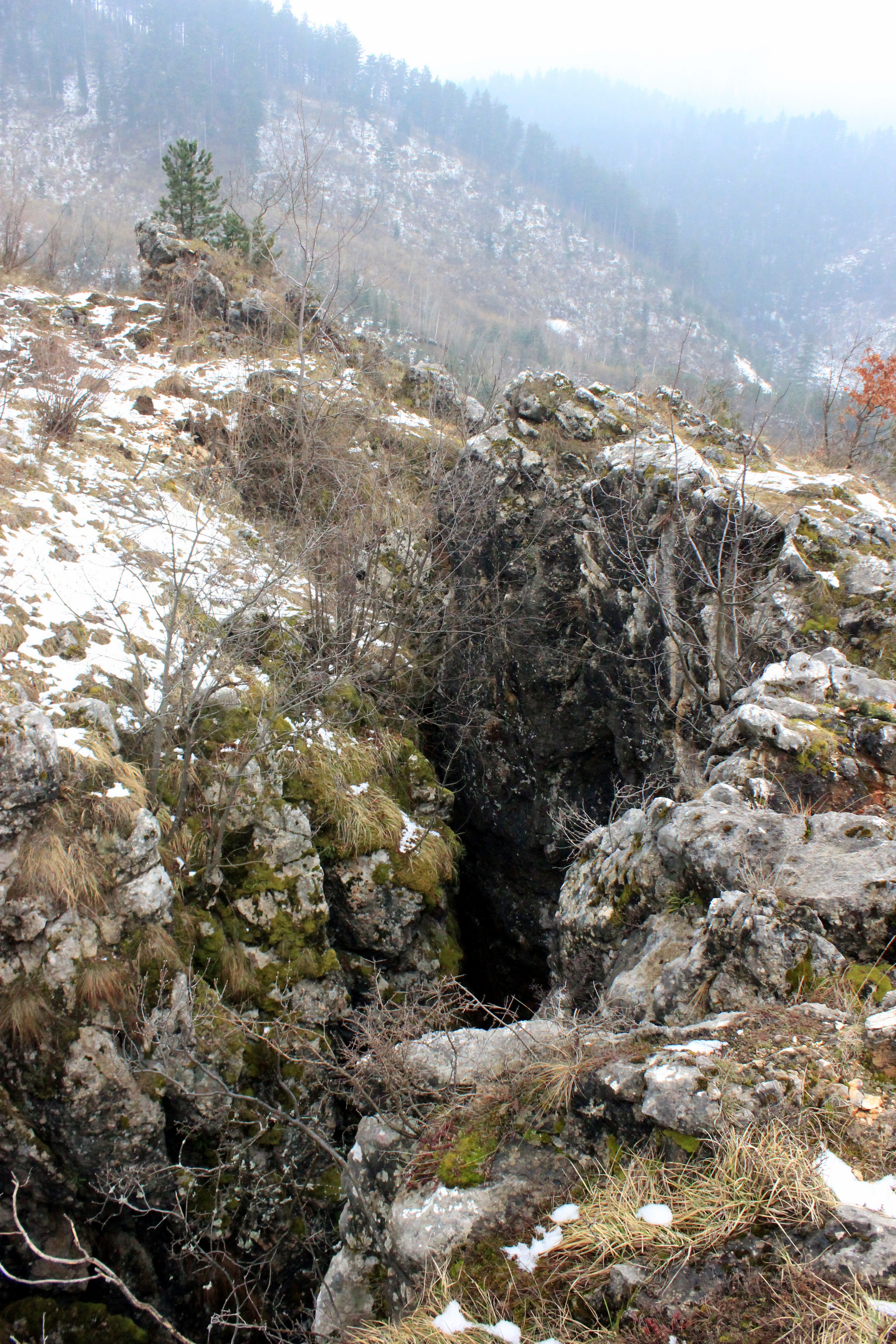 Kazani mountain ridge at Mt. Trebević, Sarajevo.